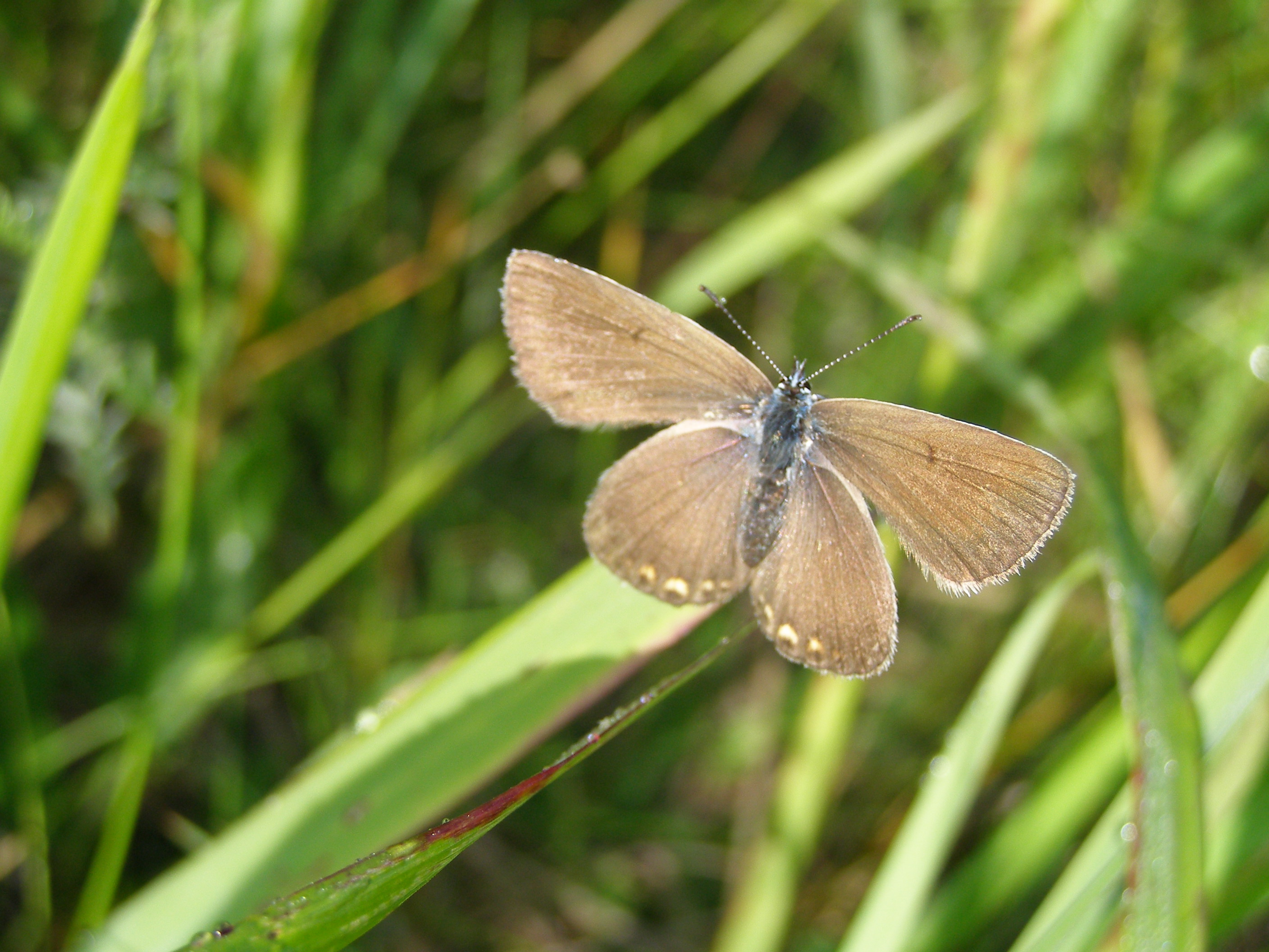 Female Polyommatus amandus from the top